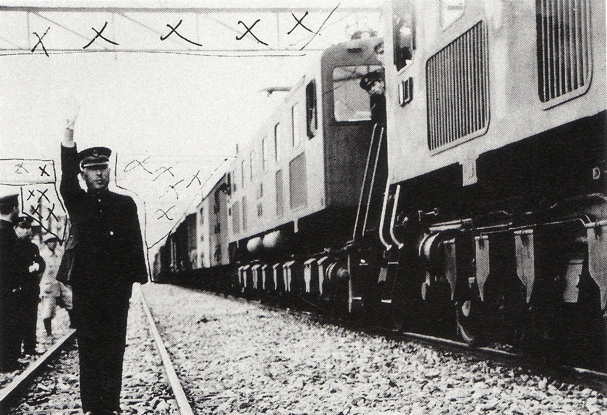 Opening of the Kammon railway tunnel in Japan. Mr. Miyoshi, the station master of Moji station at that time, was indicating departure of the first service train through the tunnel. The crosses around trains were censorship during World War 2.